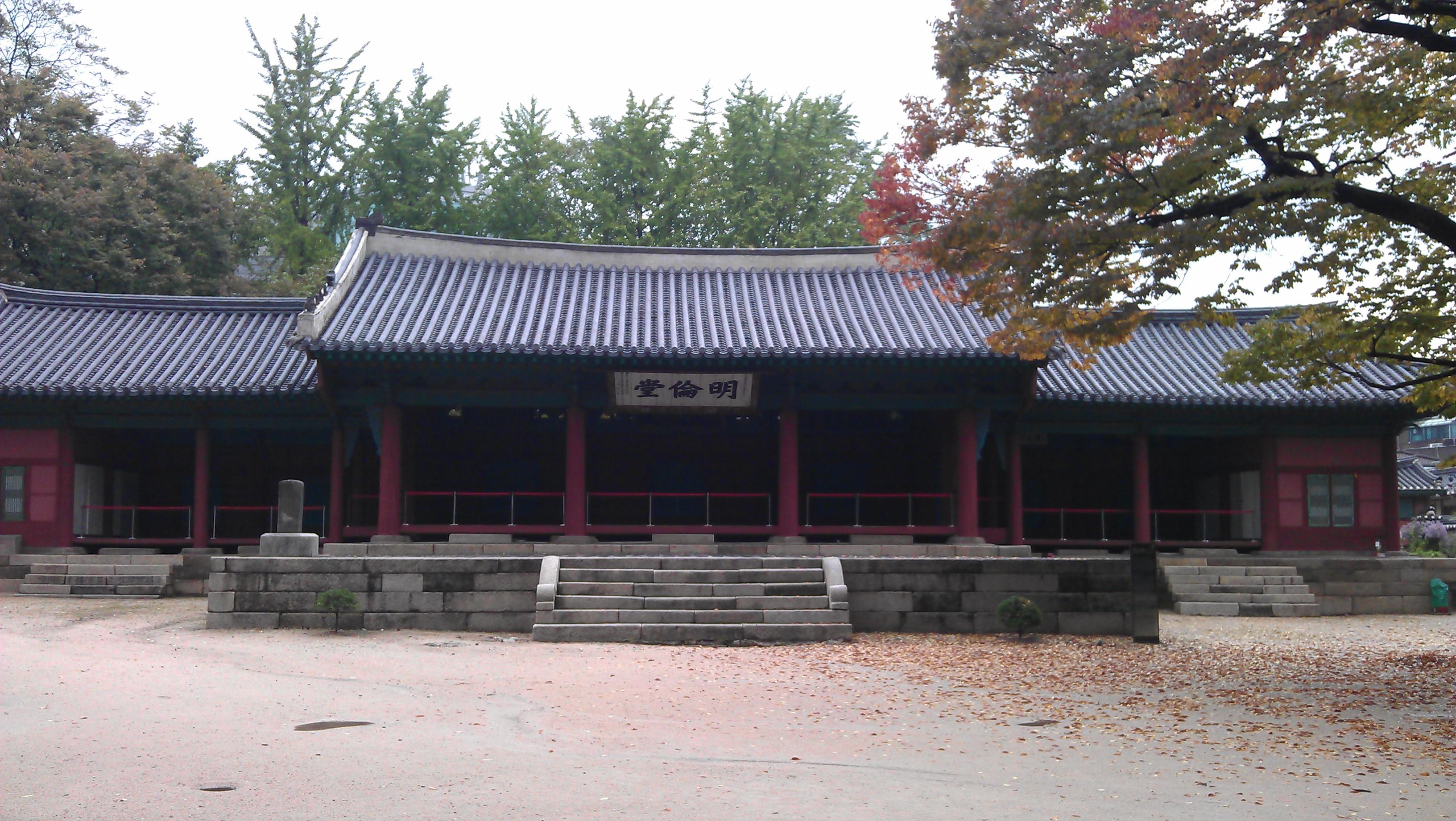 The Lecture Hall at the Sungkyunkwan in Seoul.